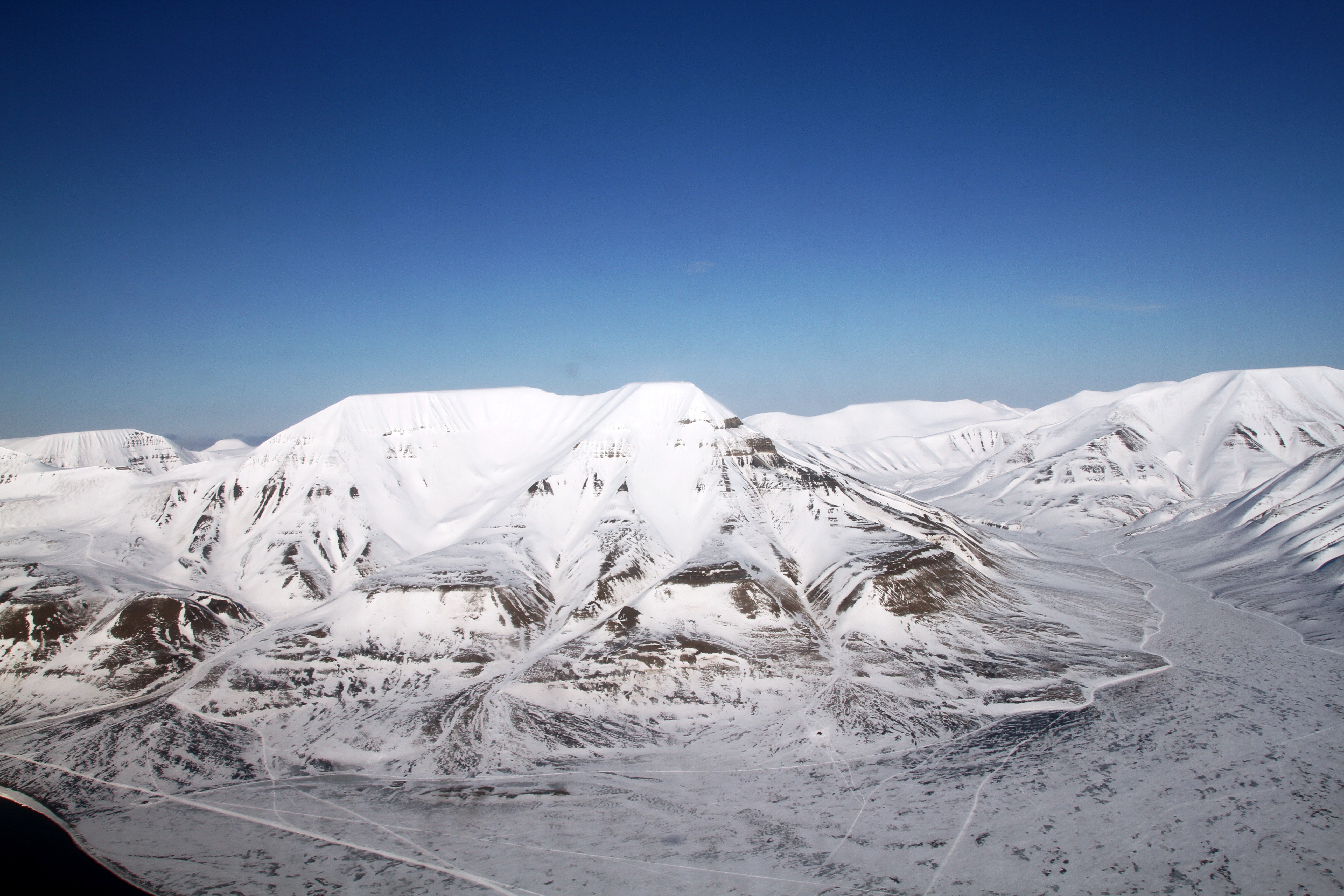 Adventdalen, east of Longyearbyen, Spitsbergen